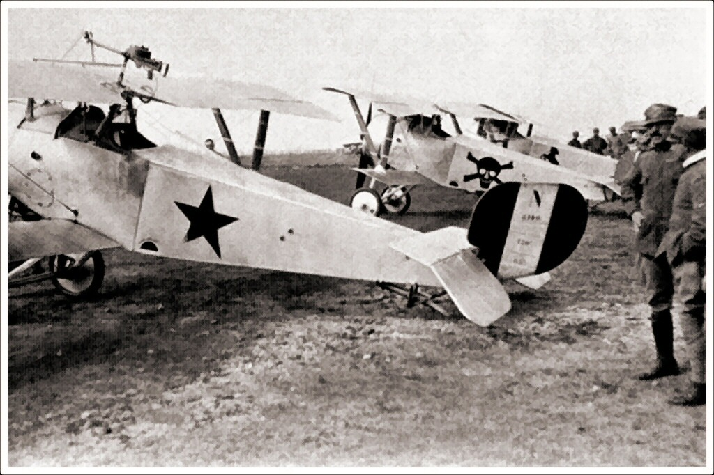 More Nieuports Ni.17 of the 91st "Squadriglia degli Assi"(Aces Squadron). The first is Poli's plane (blue star), the second is Fulco Ruffo's (black skull with crossed bones) and the last is Baracca's